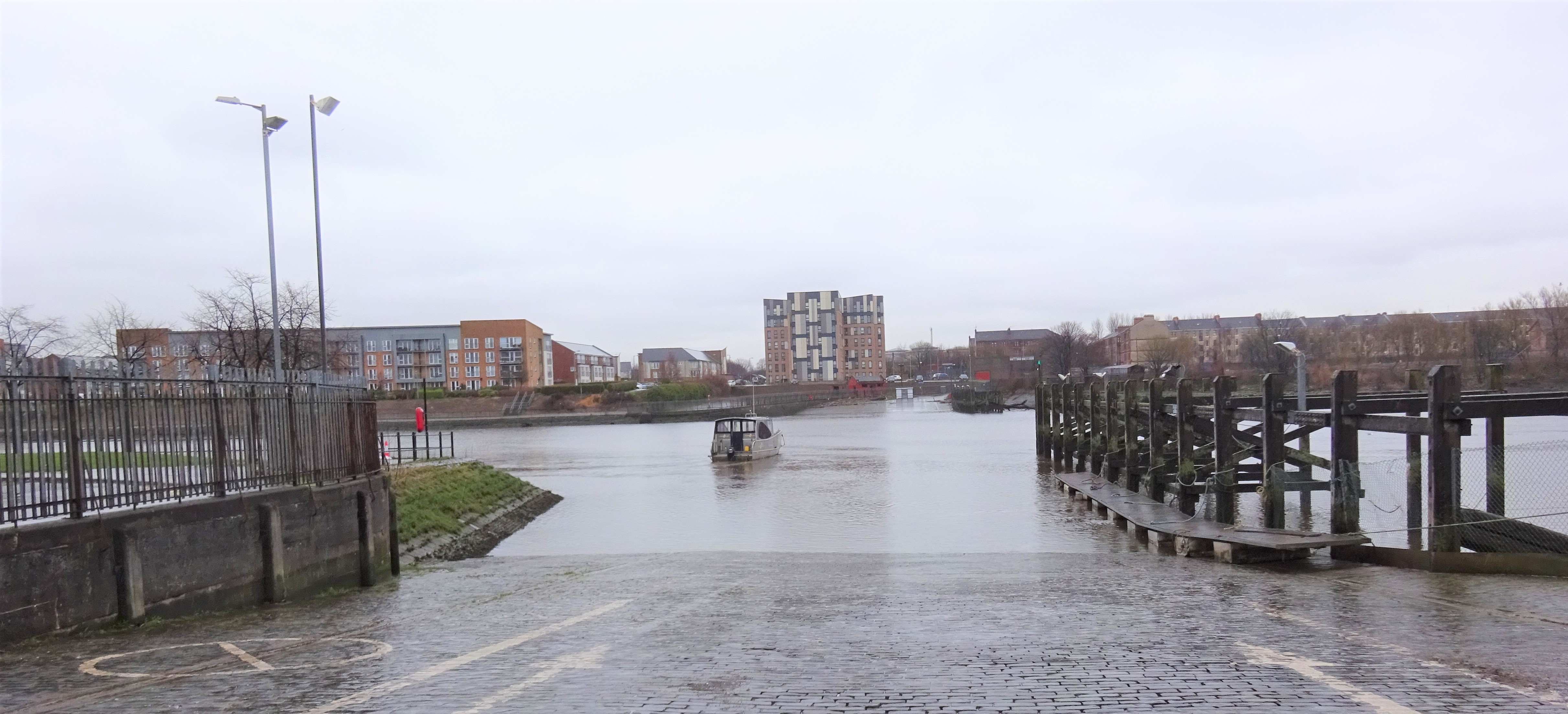 The Renfrew Ferry. View across to Yoker from the slipway. River Clyde. Renfrewshire